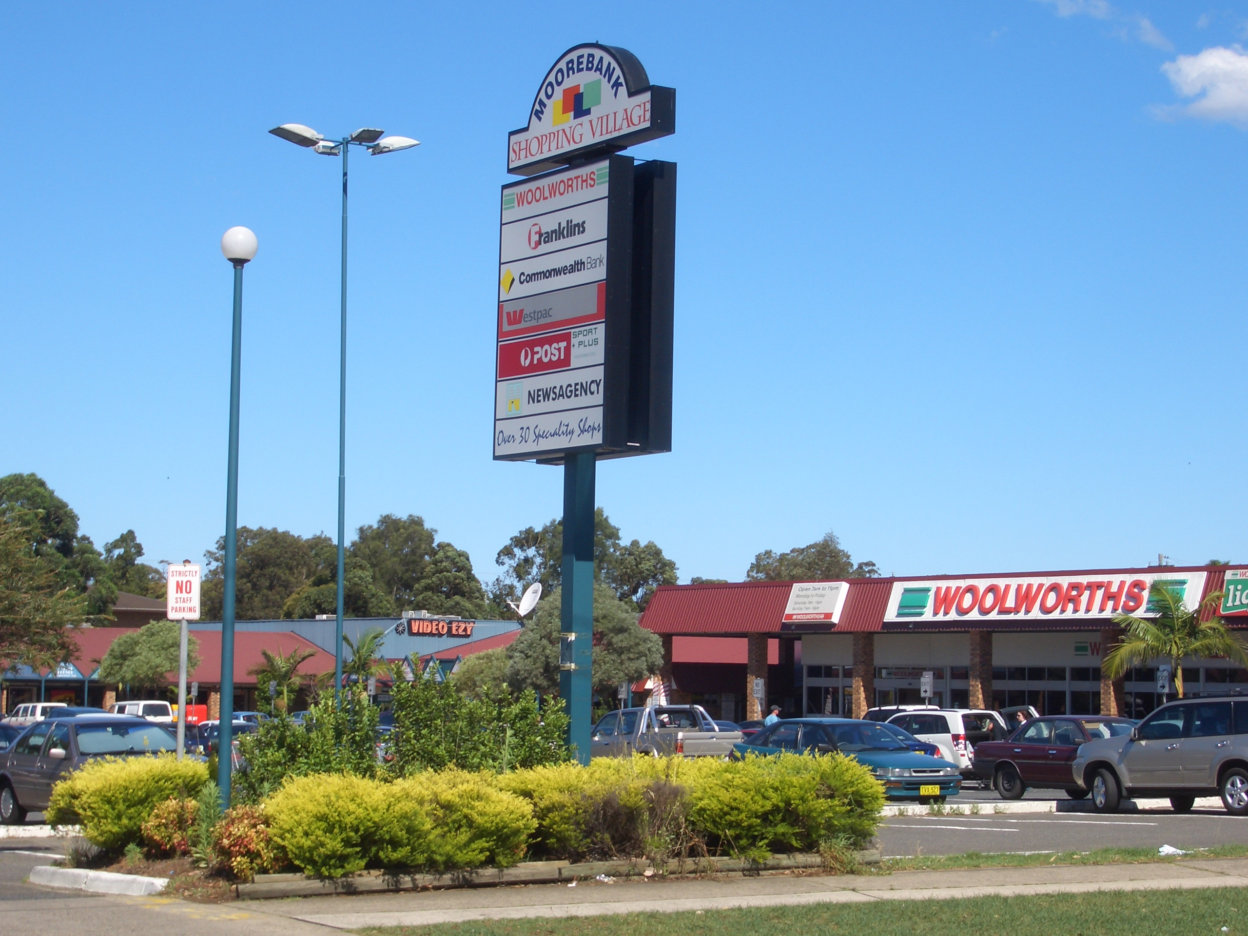 Moorebank shopping centre